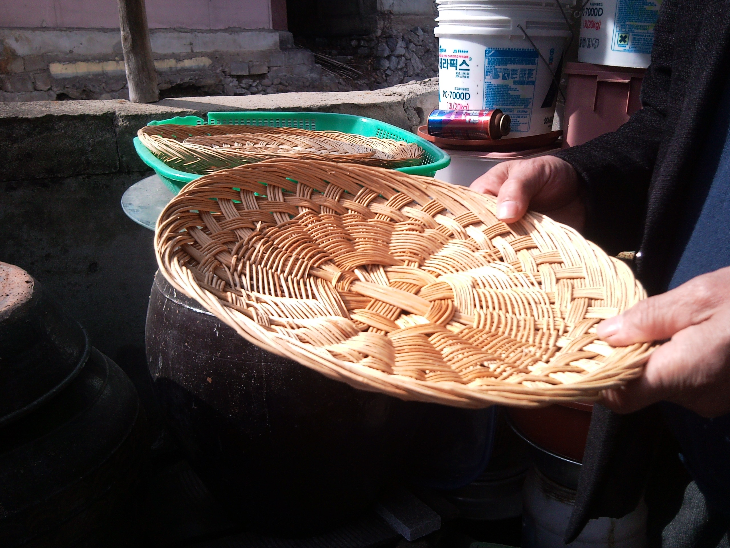 sokuri (bamboo basket)